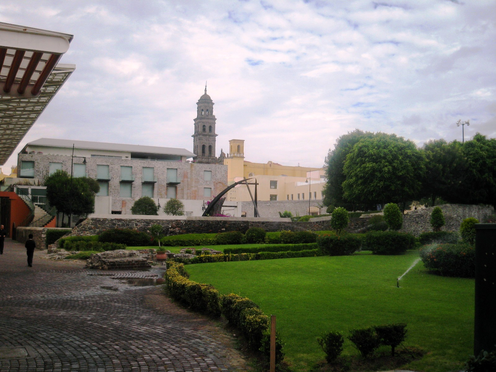 Paseo San Francisco — park/plaza within the Historic center of Puebla of the City of Puebla, Puebla state, México.